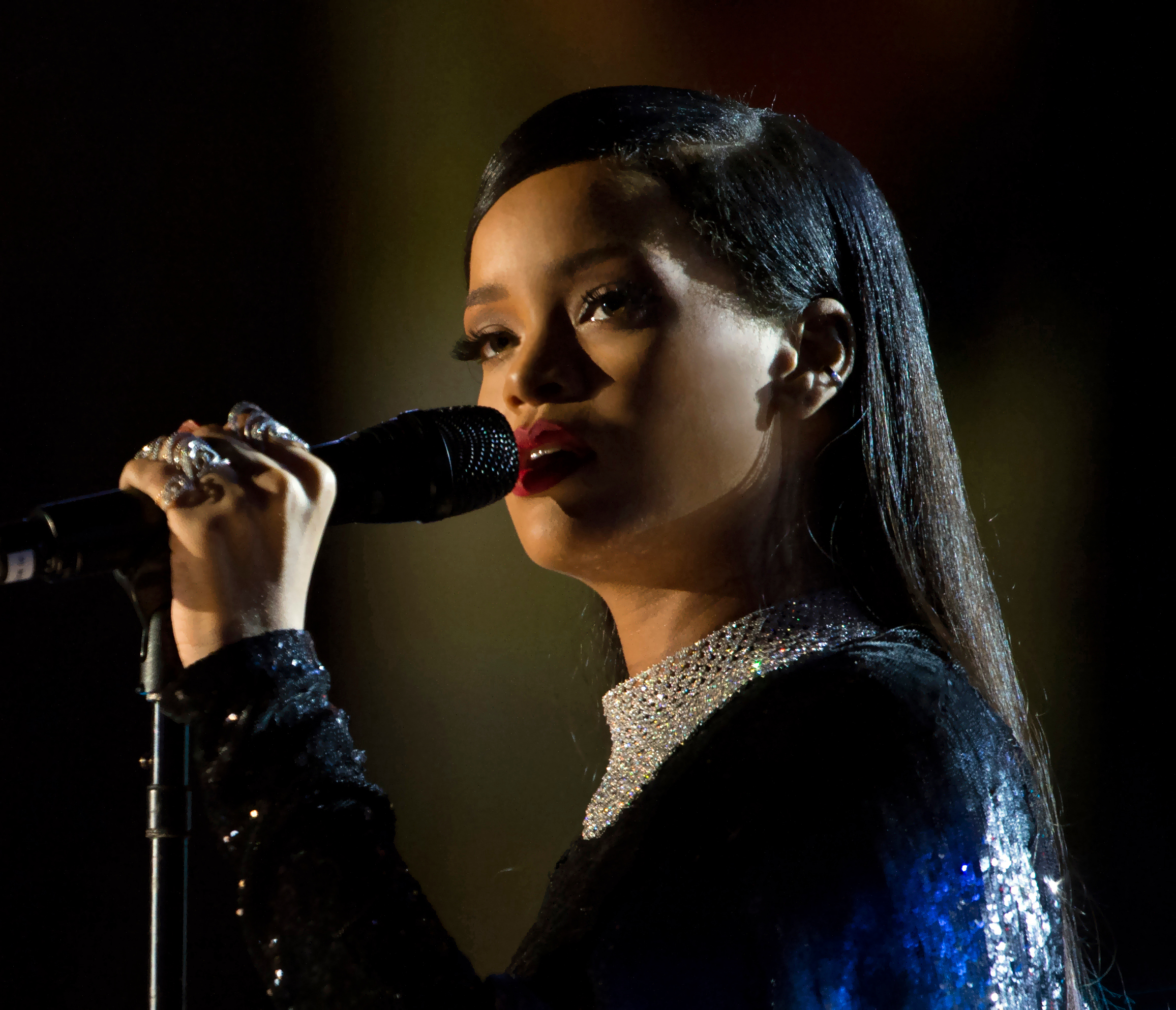 Rihanna sings during The Concert for Valor in Washington, D.C. Nov. 11, 2014. DoD News photo by EJ Hersom